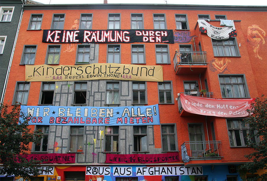 Image of liebigstreet 14 in Berlin - Friedrichshain.